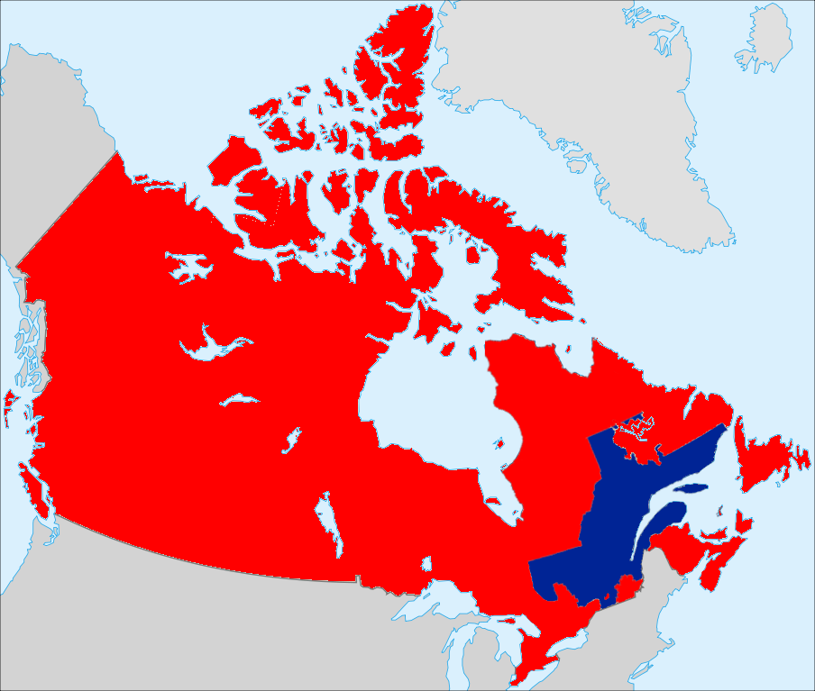 A possible map for a partitioned, independent Quebec, shown with Canada, showing the third option from Partition of Quebec, with Montreal, Northern Quebec, the Eastern Townships and the Pontiac RCM remaining with Canada.